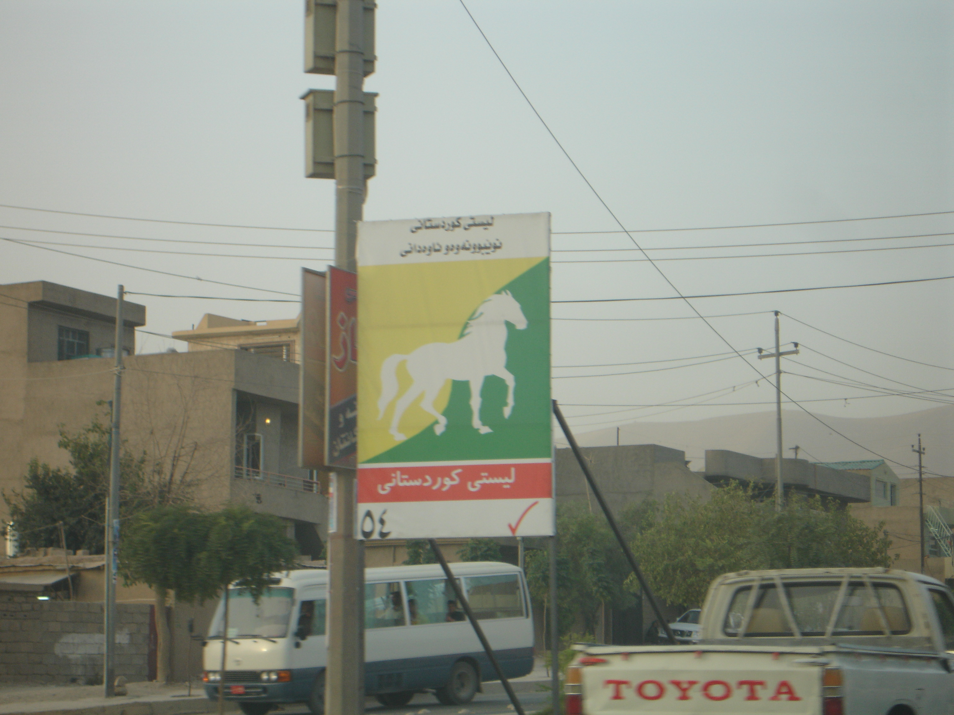 A poster of the Kurdistani List. One of the lists in the Iraqi Kurdistan legislative election, 2009